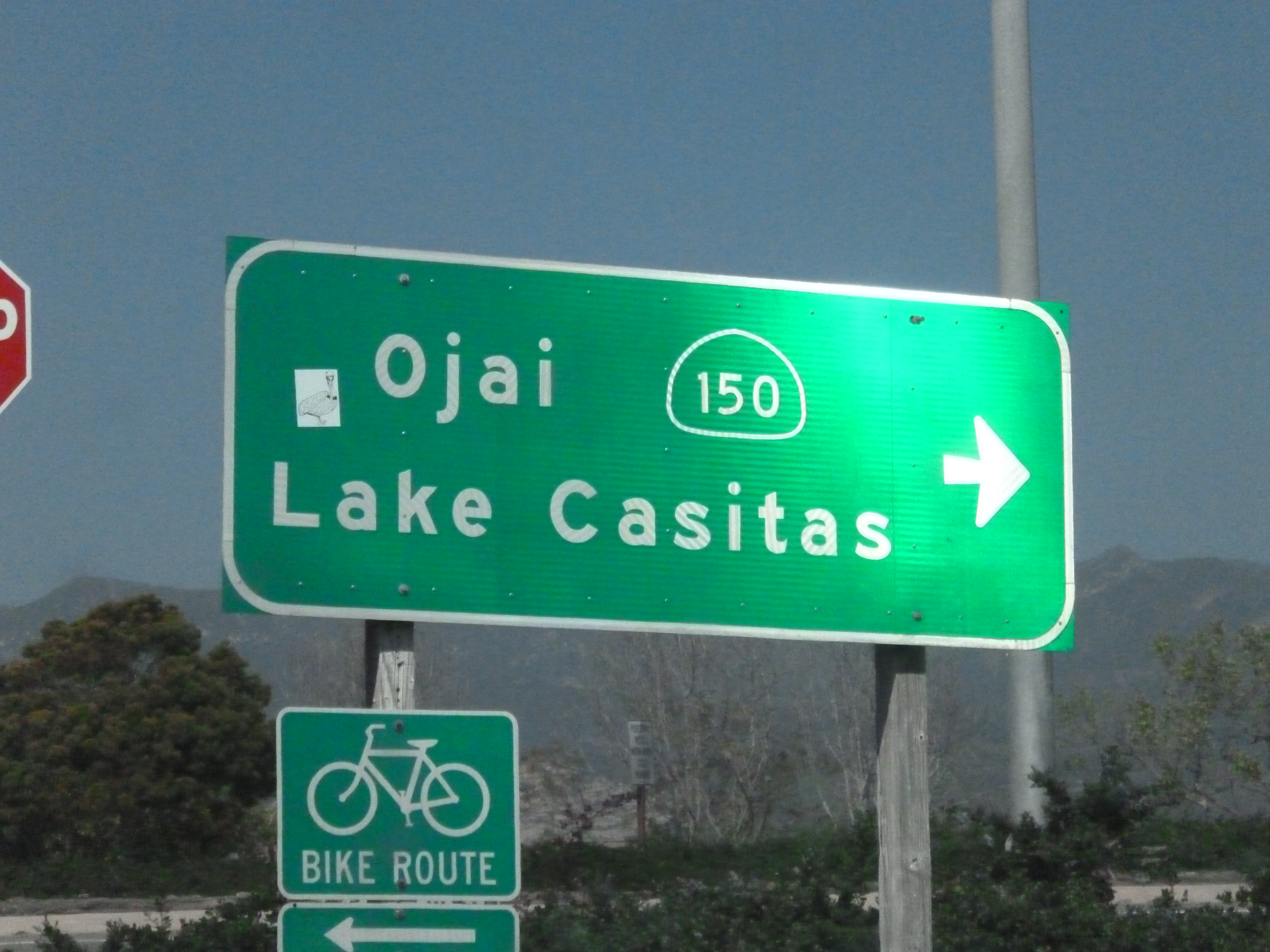 Sign showing start of California Route 150.